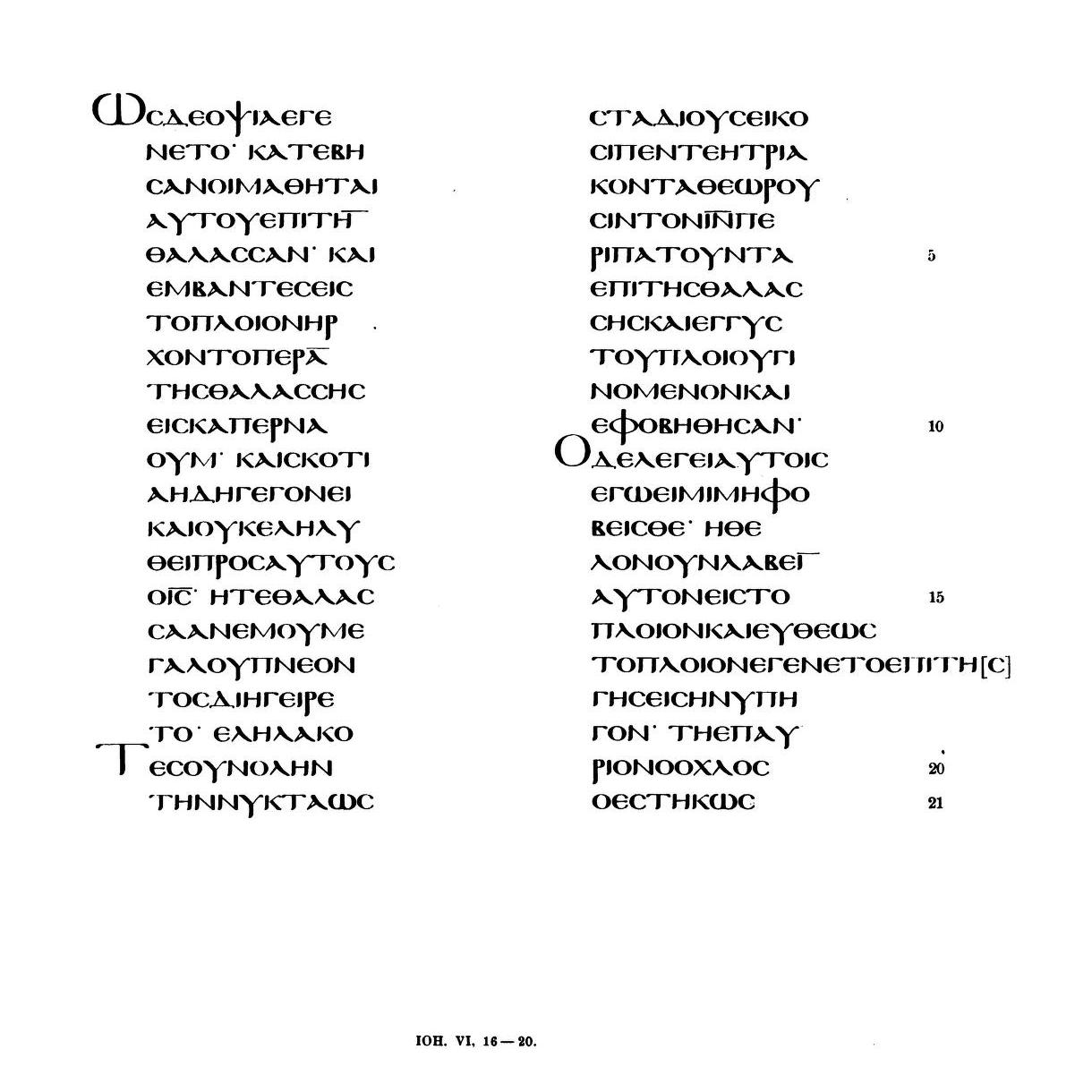 page with text of Jo 6,16-20 in Tischendorf's facsimile edition (Constantin von Tischendorf, Fragmenta Veneta Evangelistarii Palimpsesti, in: Monumenta sacra inedita (Leipzig 1855), vol. I, p. 205.)